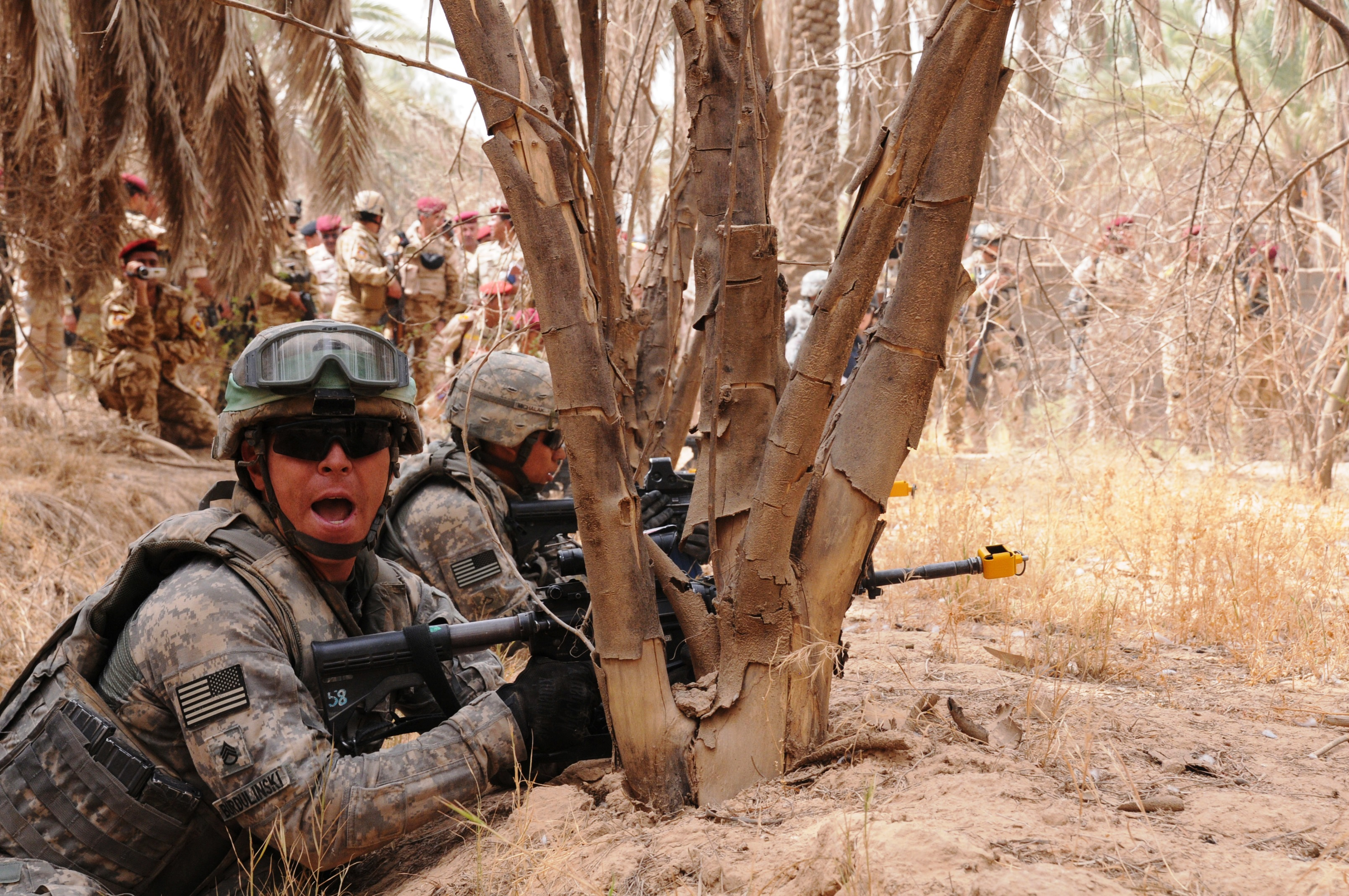 Staff Sgt. Joseph Burdulinski, a Chicago, Ill., native, and soldier with B Company, 1st Battalion, 21st Infantry Regiment, 2nd Advise and Assist Brigade, 25th Infantry Division, shouts an order for movement during a tactical demonstration, Sept. 30, at a palm grove near Ba'qubah in Diyala province, Iraq. The demonstration was performed for senior Iraqi Army officers to showcase the skills their soldiers would be learning during rural training exercises slated to be conducted in October. 2nd Stryker Brigade Combat Team, 25th Infantry Division Photo by Spc. Robert Michael England Date Taken:09.30.2010 Location:FORWARD OPERATING BASE WARHORSE, IQ Related Photos